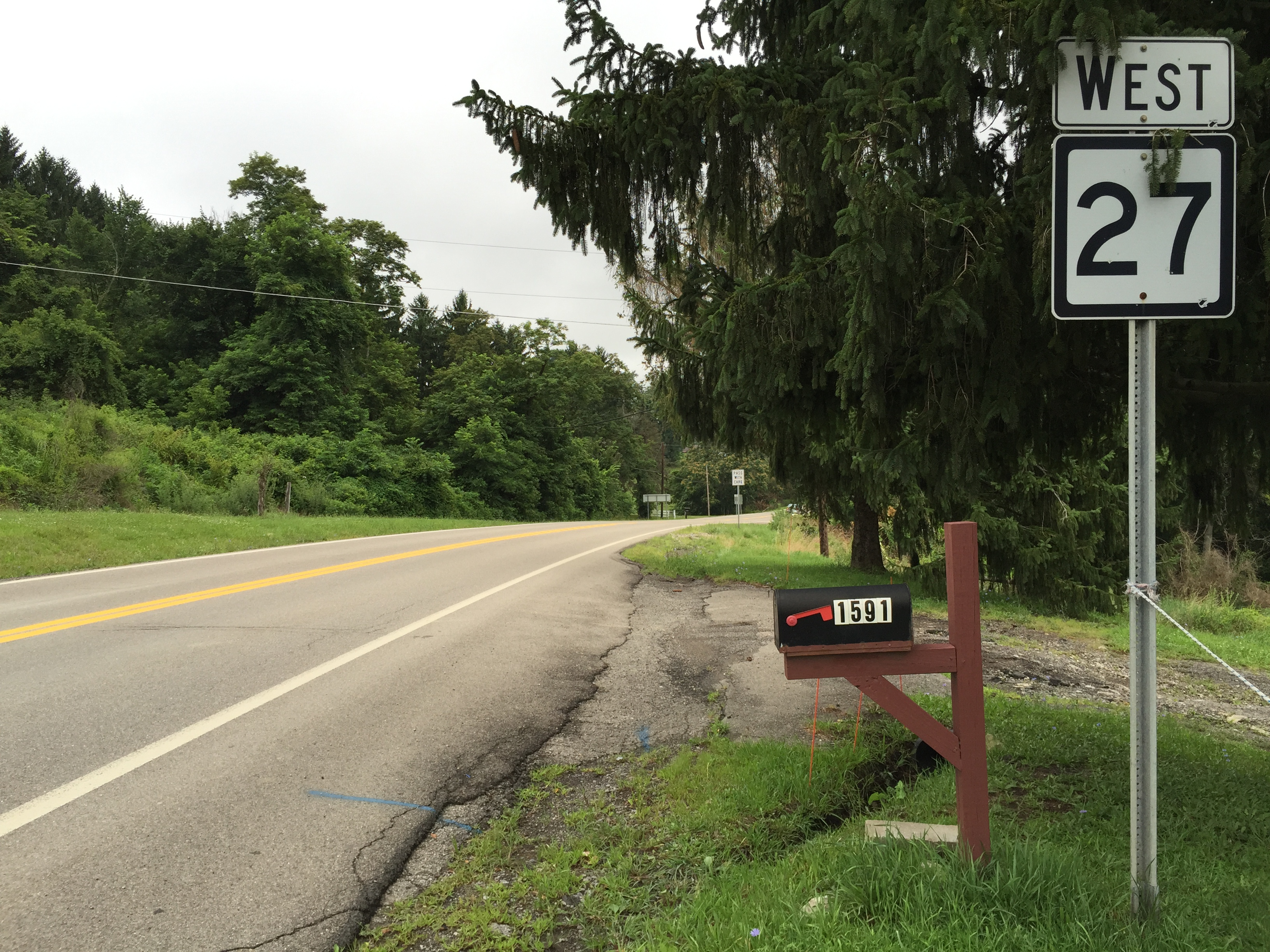 View west along West Virginia State Route 27 (Washington Pike) at West Virginia State Route 88 in Franklin, Brooke County, West Virginia